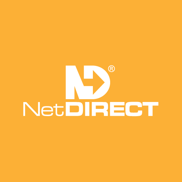 Logo NetDirect